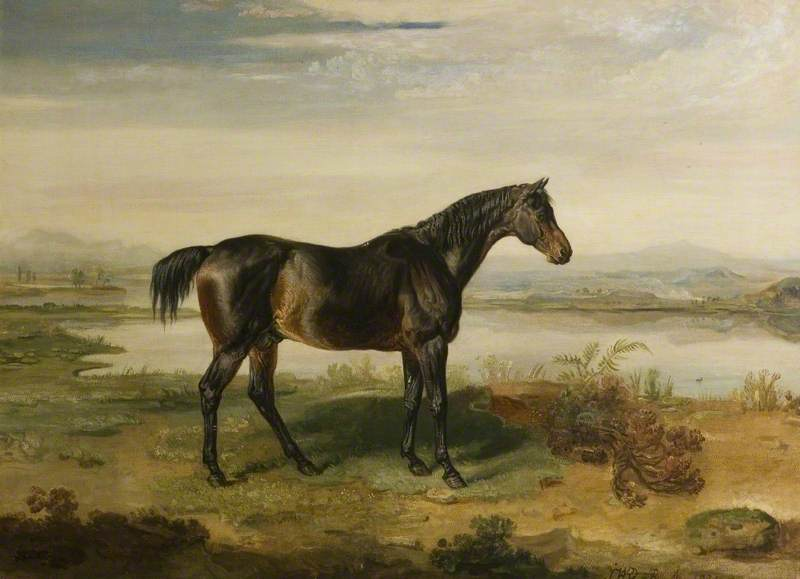 Painting of the British racehorse Doctor Syntax, winner of 34 races between 1814 and 1823. Painting 1820 by the artist James Ward (1769-1859)